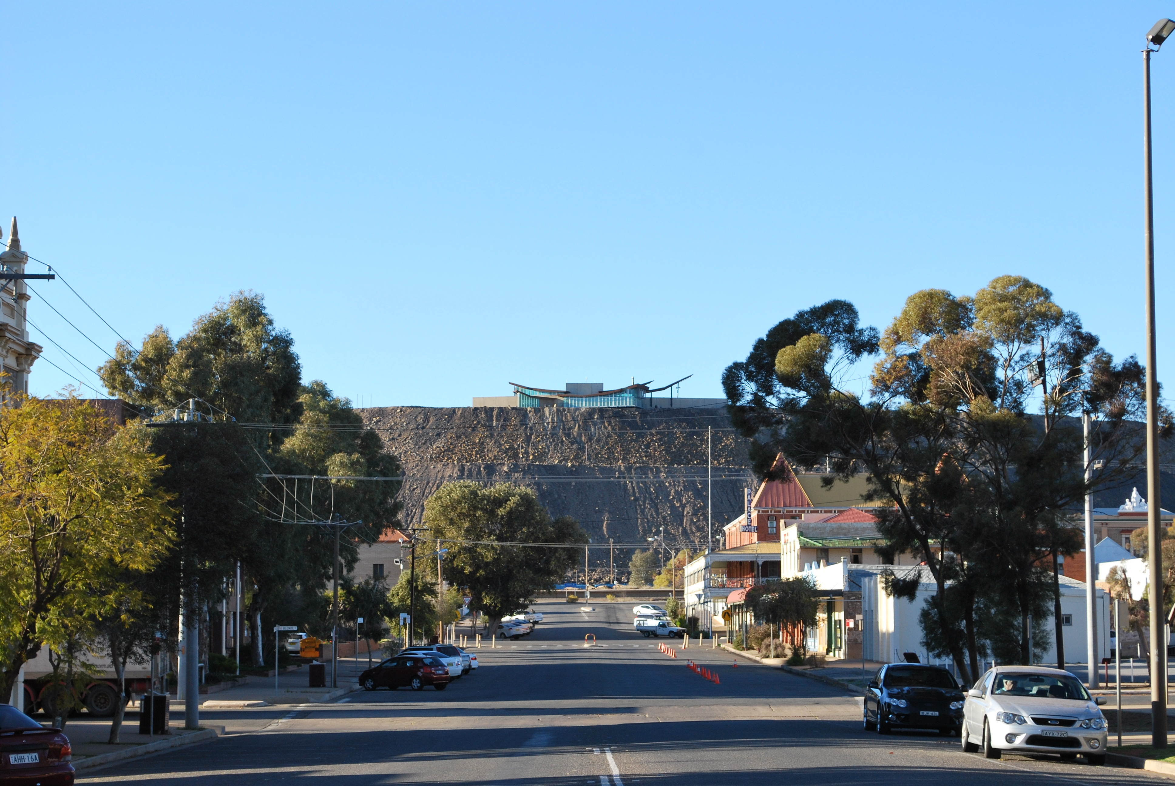 Looking down Sulphide St towards the Broken Earth visitor centre on the mullock heap at Broken Hill, New South Wales